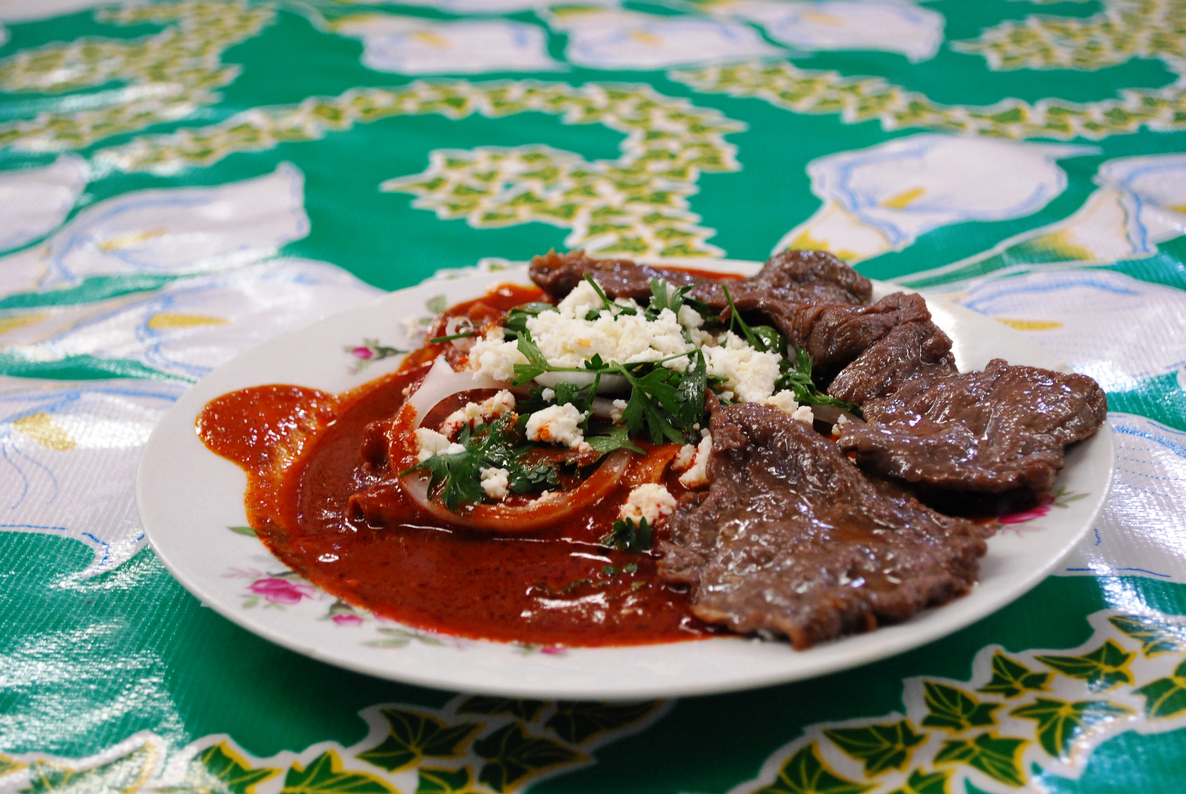 Enchiladas with tasajo at a stand in Morelos Market in Ocotlan de Morelos, Oaxaca, Mexico